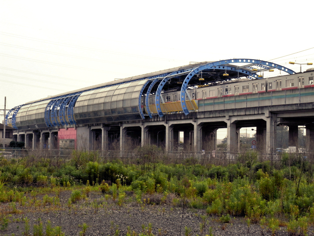 Yumegaoka is a station of Sagami railway company of Japan. It has a unique externals.